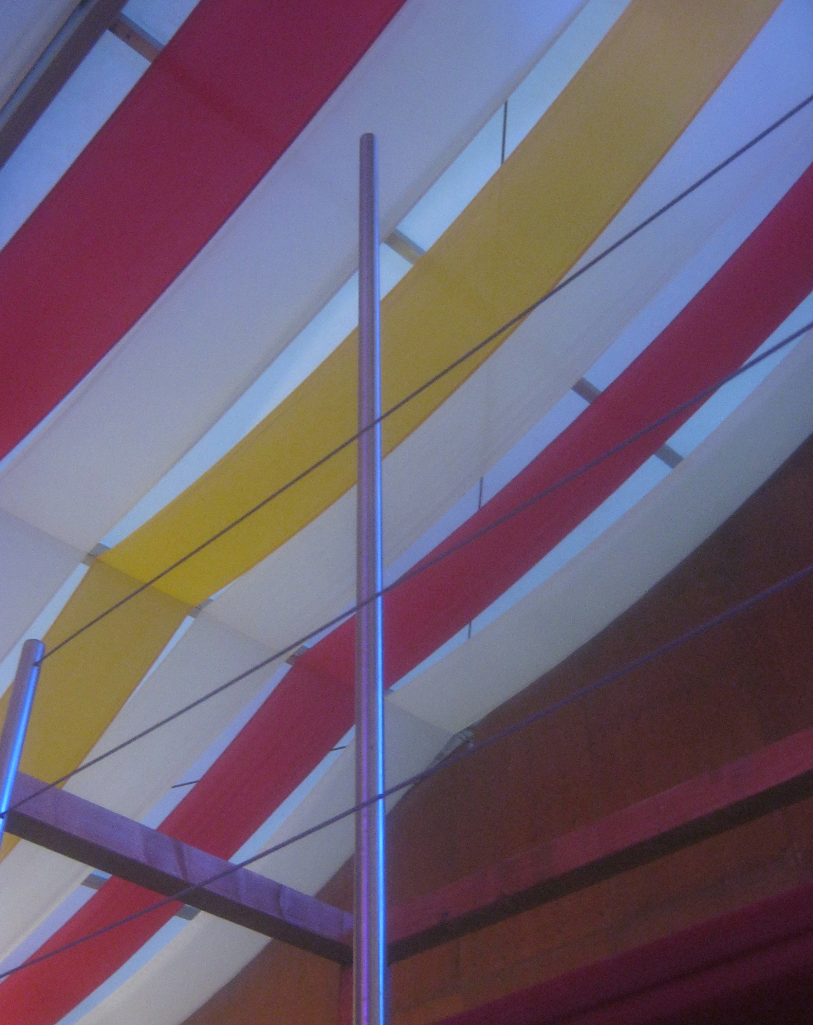 An LPAM-Device in a beer tent on Frühlingsfest Stuttgart 2018